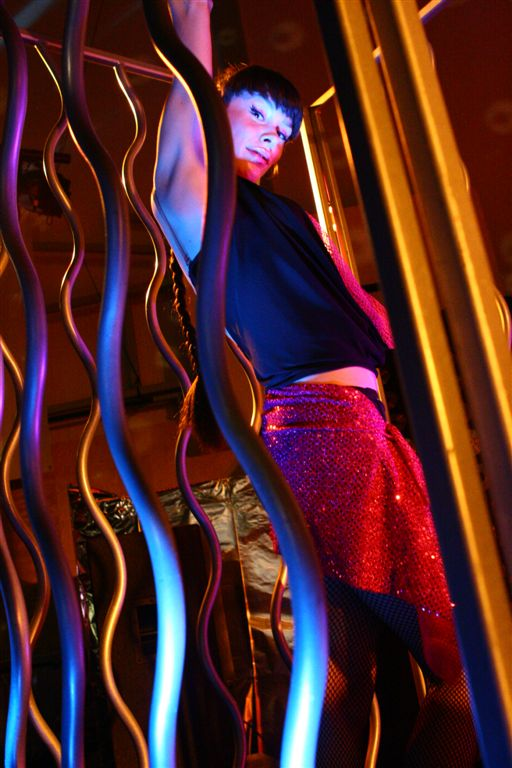 Cage Dancer, North Vancouver, 2005.